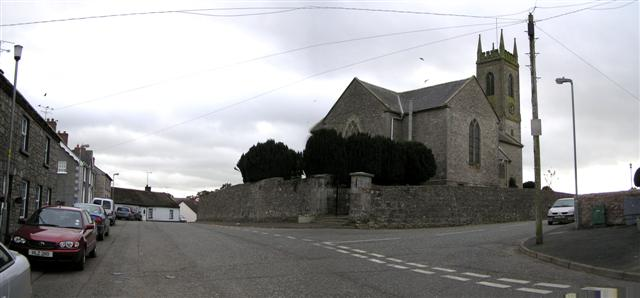 Tynan, County Armagh Included in the picture is Tynan Church of Ireland